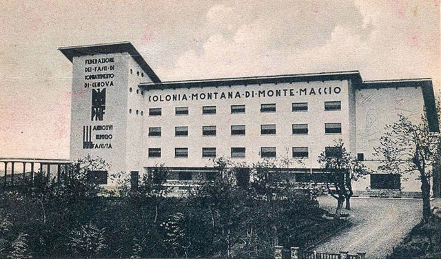 facciata principale